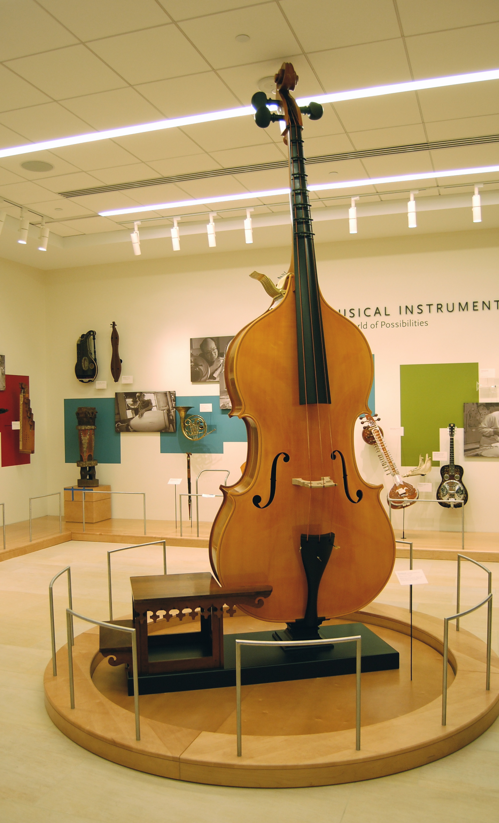 Octobass, MIM PHX (4554573624)